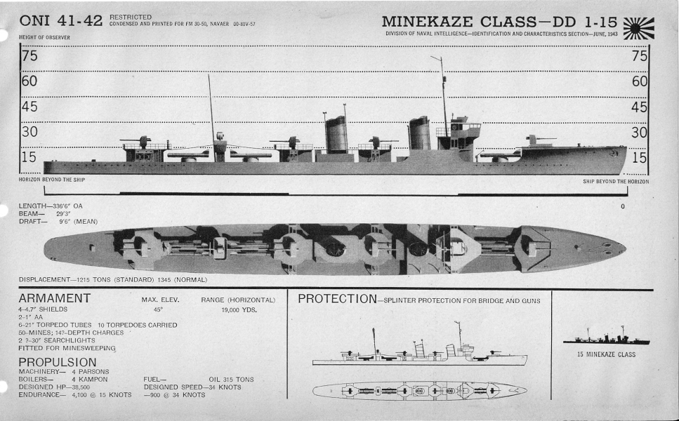 Imperial Japanese Navy Minekaze-class destroyer.